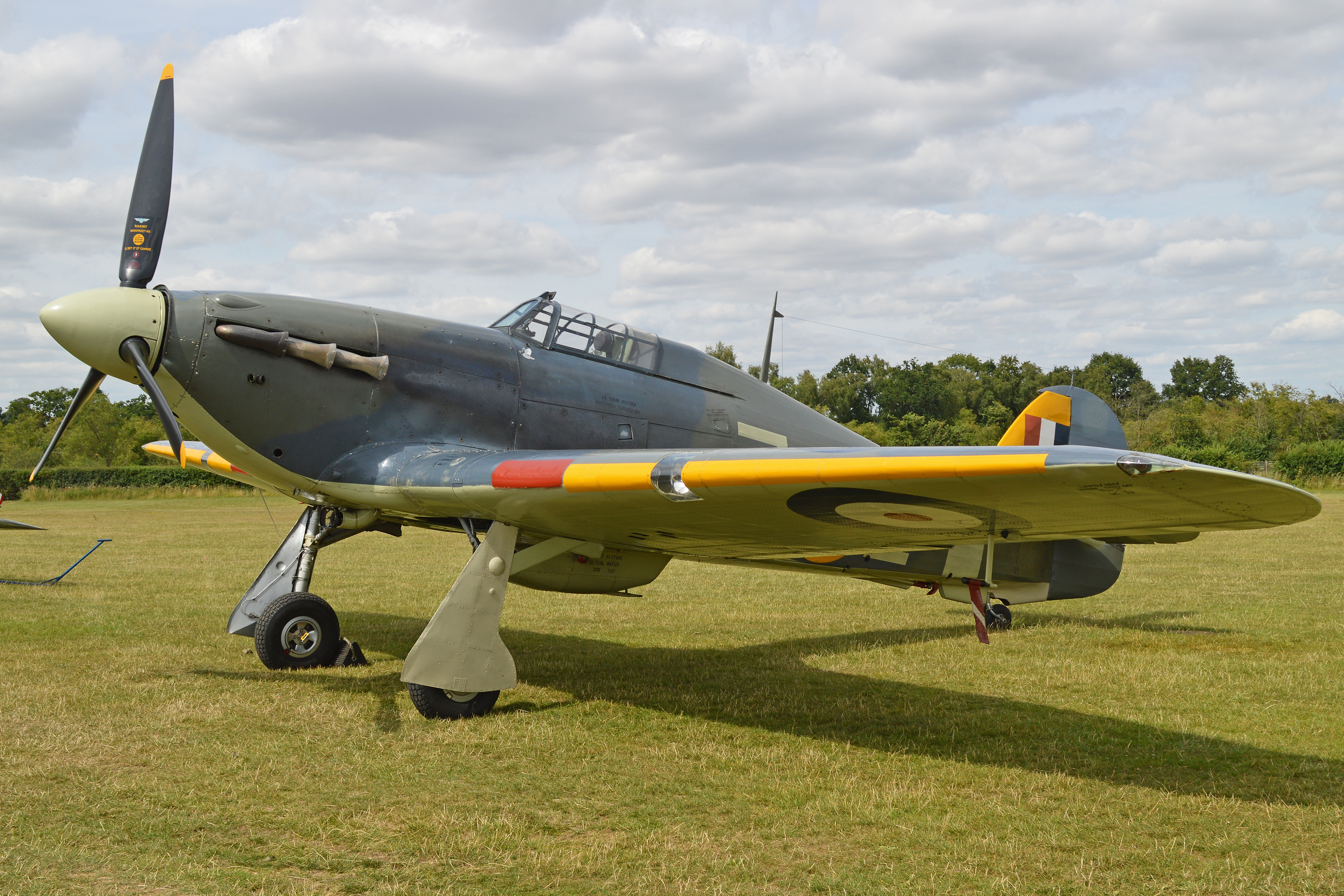 c/n CCF/41H/4013. Owned and operated by the Shuttleworth Collection. ‘Best of British’ Flying Evening. Old Warden, Bedfordshire, UK. 18-7-2015